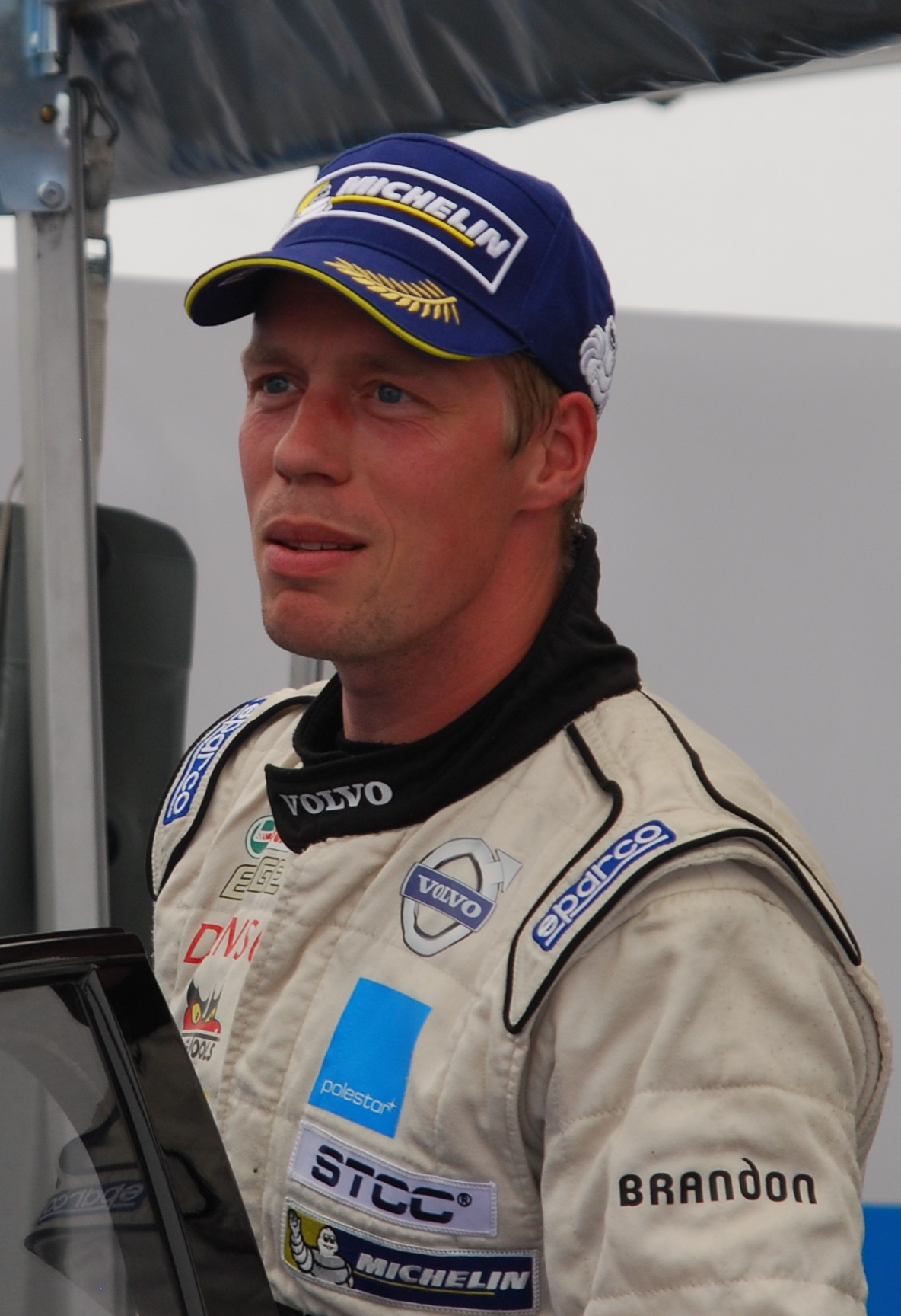 Thed Björk at Falkenbergs Motorbana, July 11, 2015.